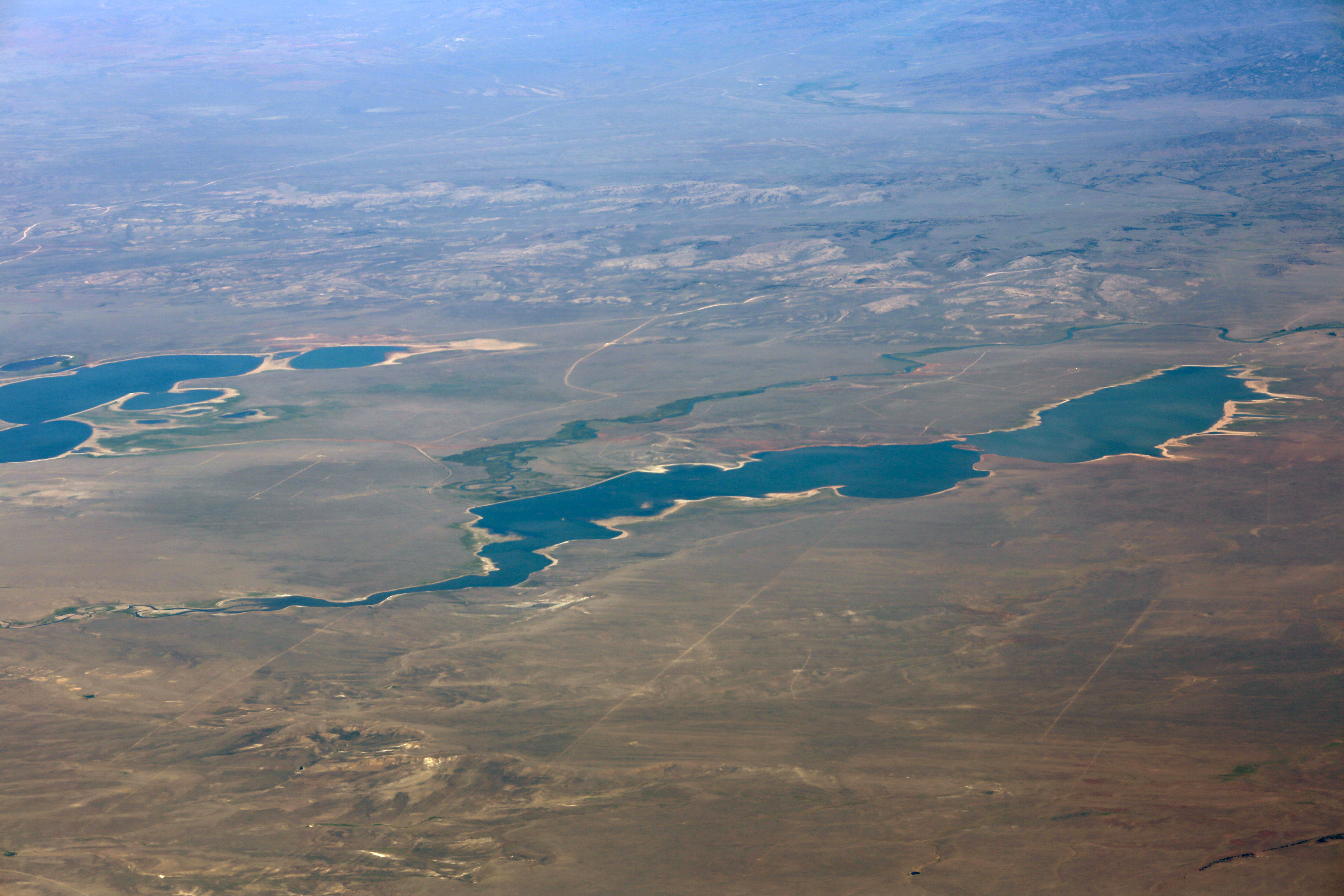 Wheatland Reservoirs , feeding the Laramie River, in Wyoming.